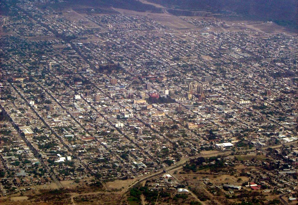 Aerial view of San Fernando del Valle de Catamarca, Catamarca province, Argentina.